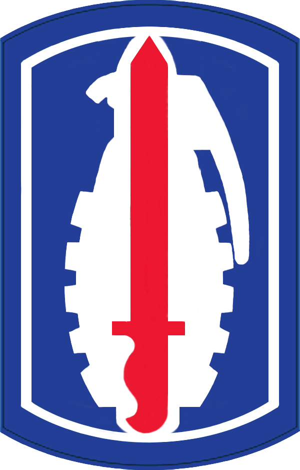 191st Infantry Brigade shoulder sleev einsignia. Representation of United States Army insignia, ineligible for copyright